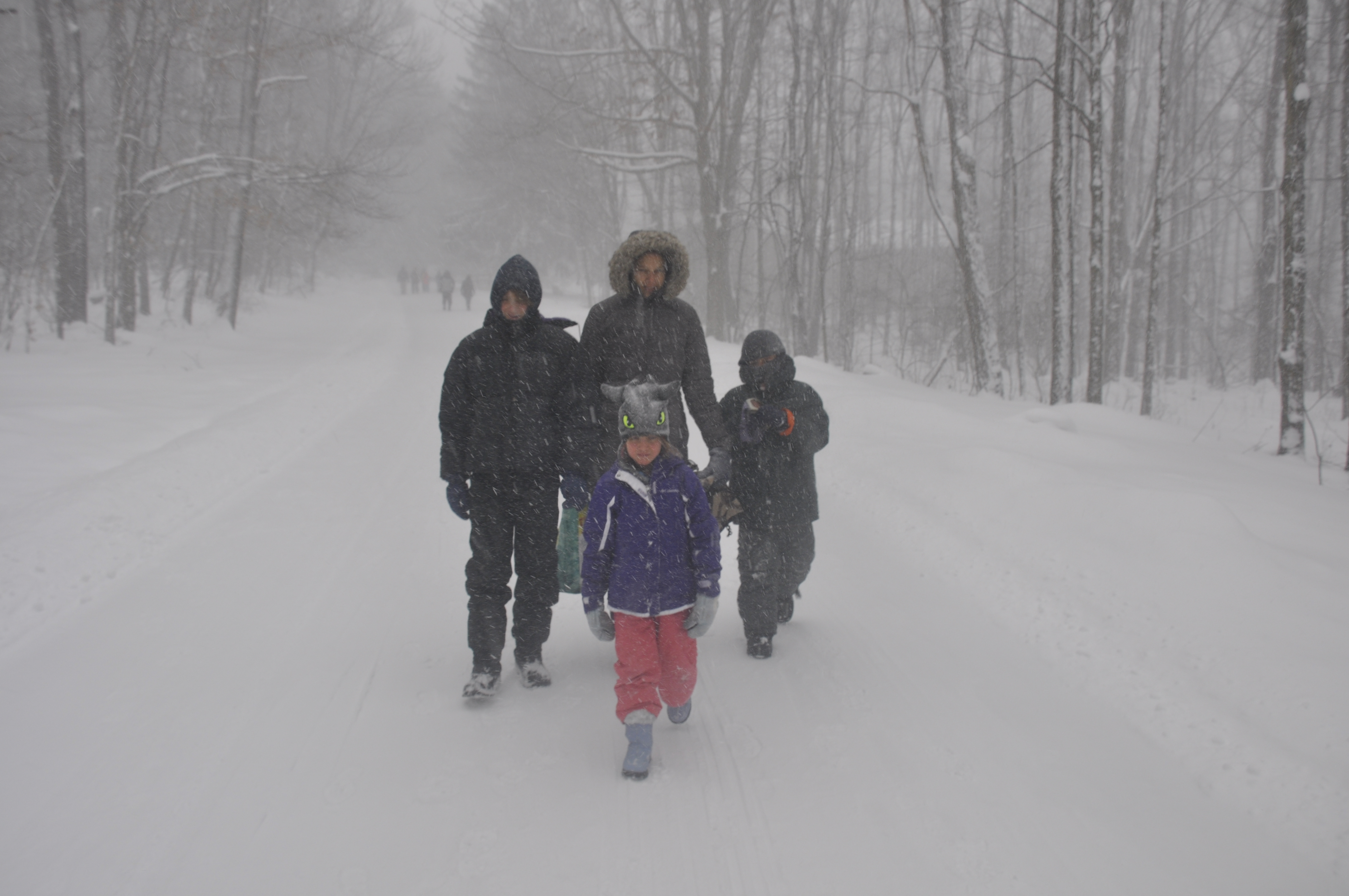 Deer Valley YMCA Family Camp: On a way to breakfest